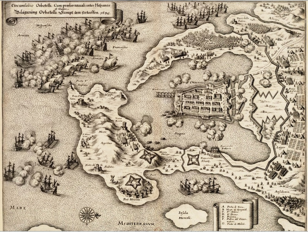 Battle of Orbitello. Coast of Tuscany. 1646.